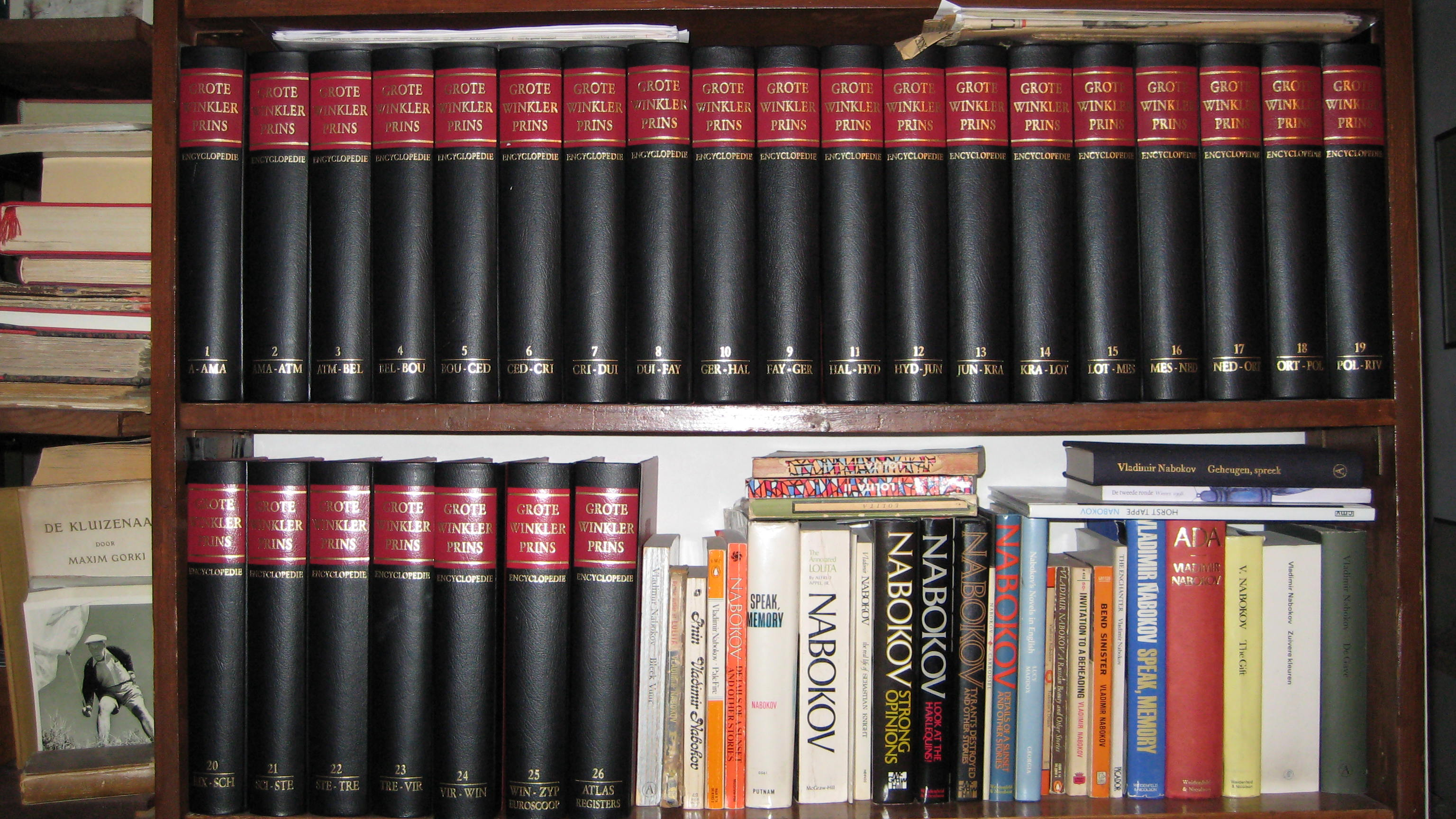 Last print edition (1990-1993) of largest Dutch encyclopedia